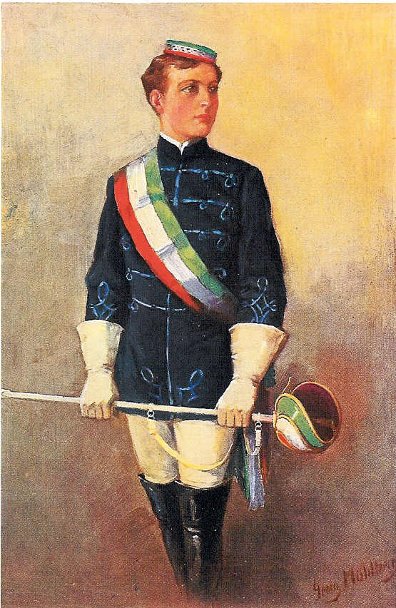 see: Couleur